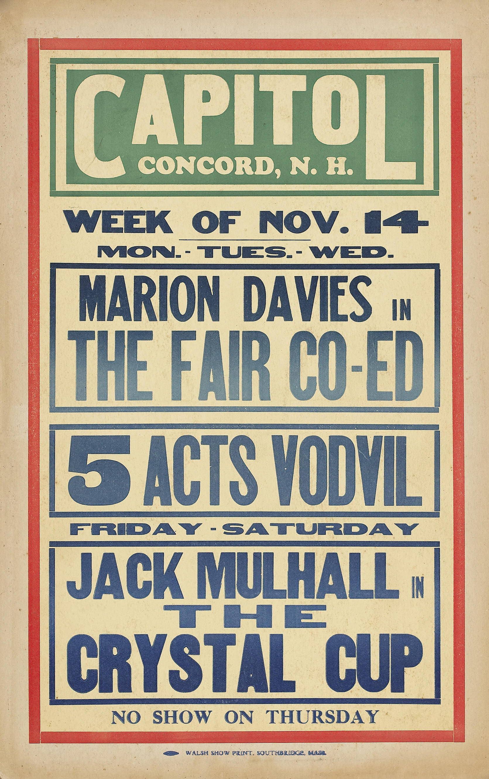 Poster advertising the American film The Fair Co-Ed (1927) playing at the Capitol Theatre